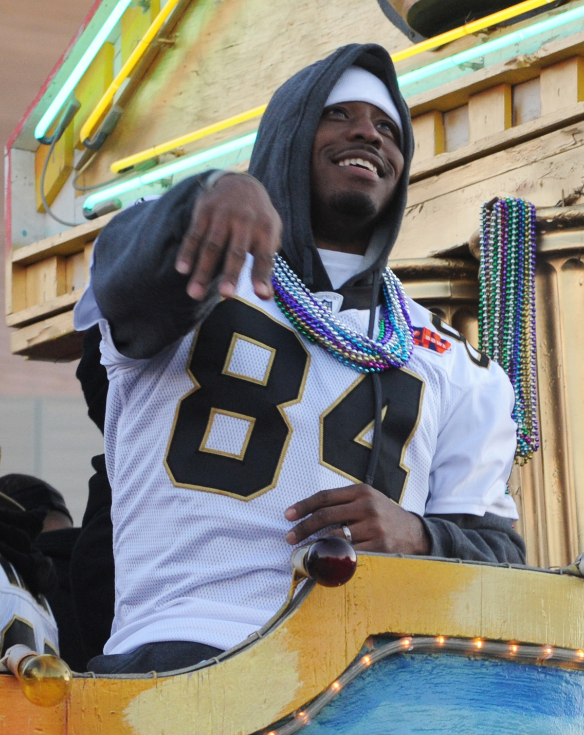 February 9, 2010